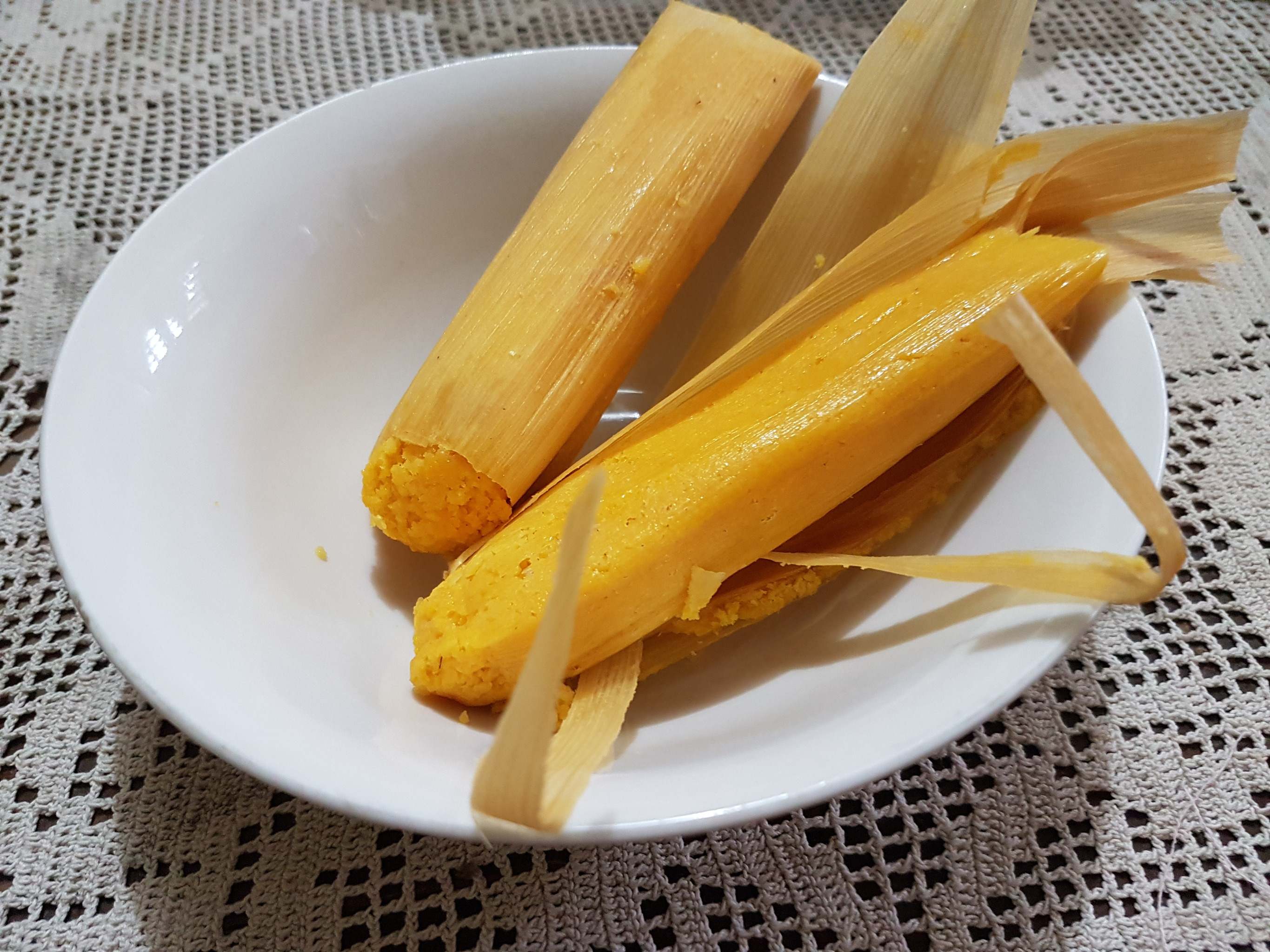 Binaki (Steamed Corn Cake) from Bukidnon, Mindanao, Philippines.